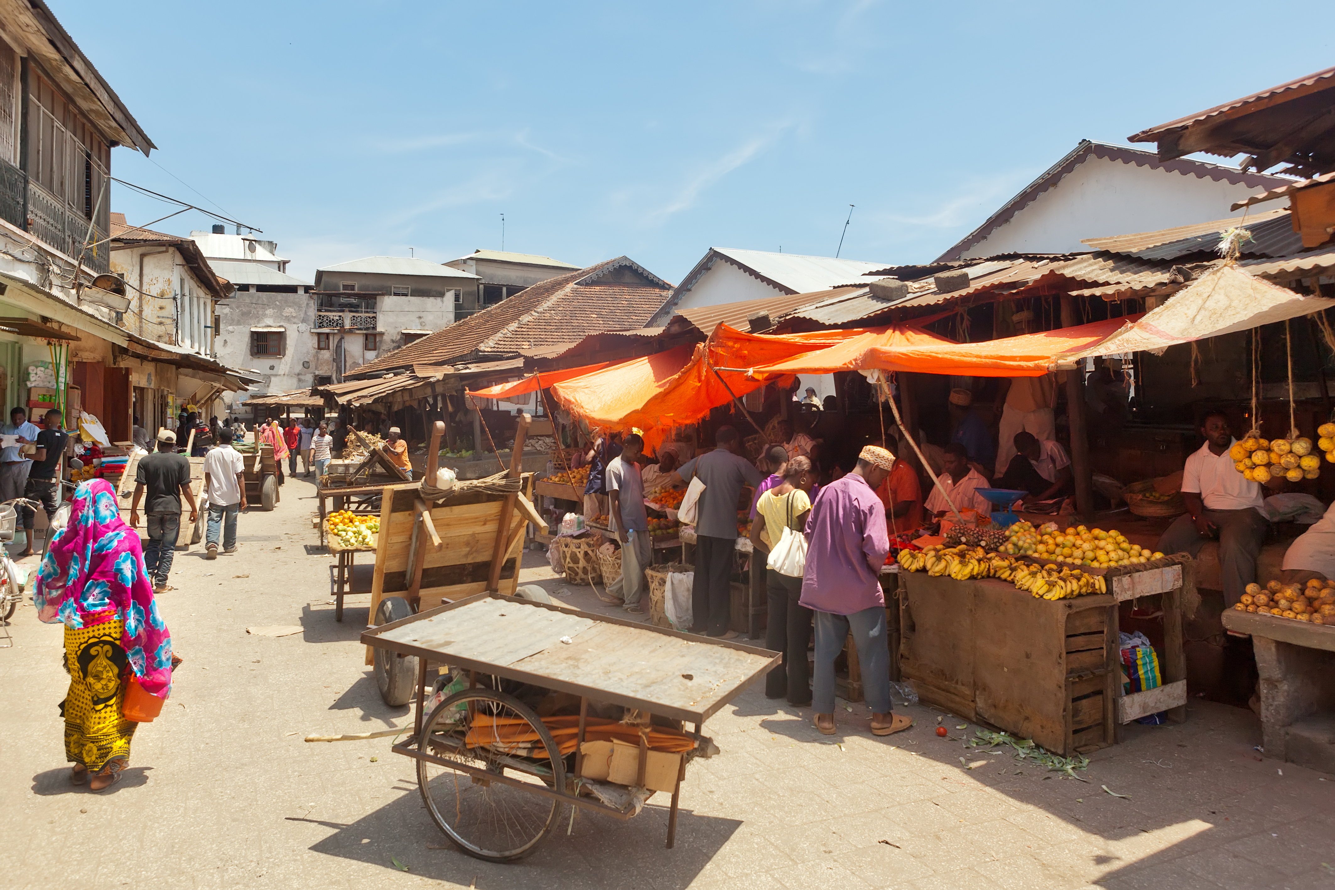 Stone town market